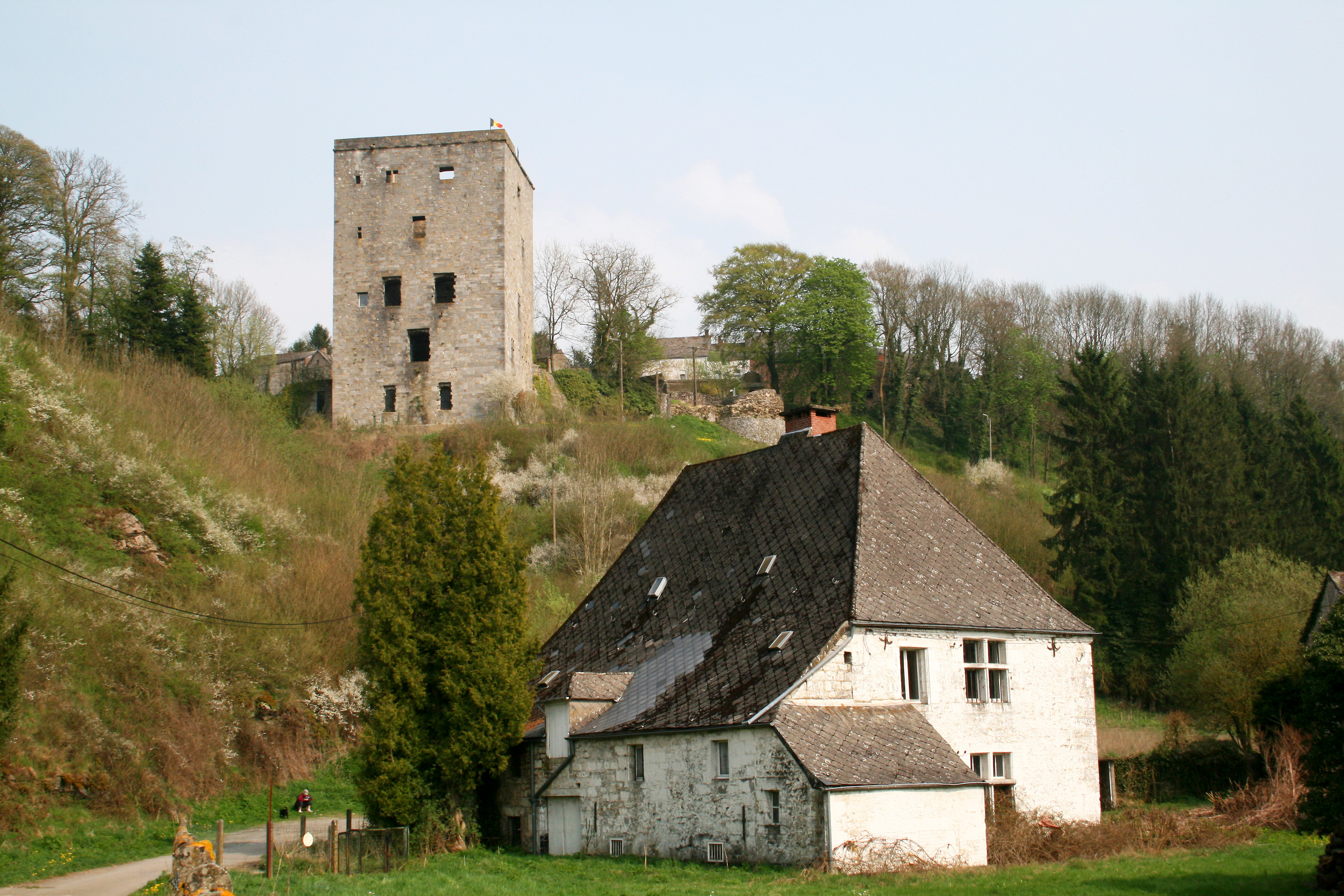 Beaumont, Belgium, the former communal water mill (XVIIth century) and the "Tour Salamandre" (XIth century).